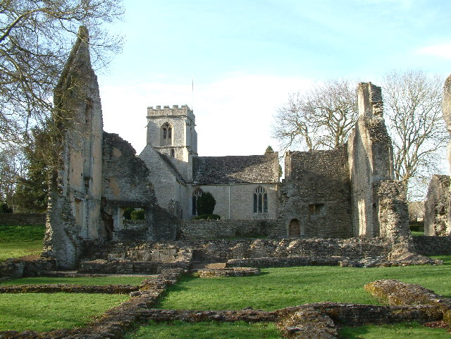 St. Kenelm's Church, Minster Lovell, viewed through the ruined Hall.